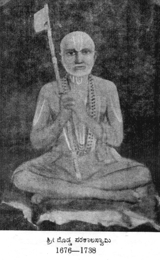 His Holiness Sri Sri Sri Parakala Yogi Brahmatantra Swatantra Parakala Swami, the 21st Pontiff of Sri Parakala Mutt